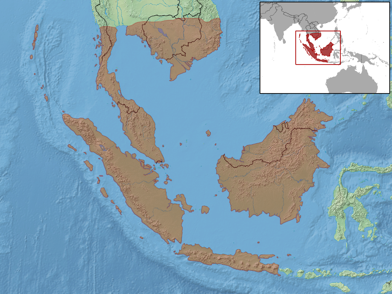 geographic distribution of Dasia olivacea